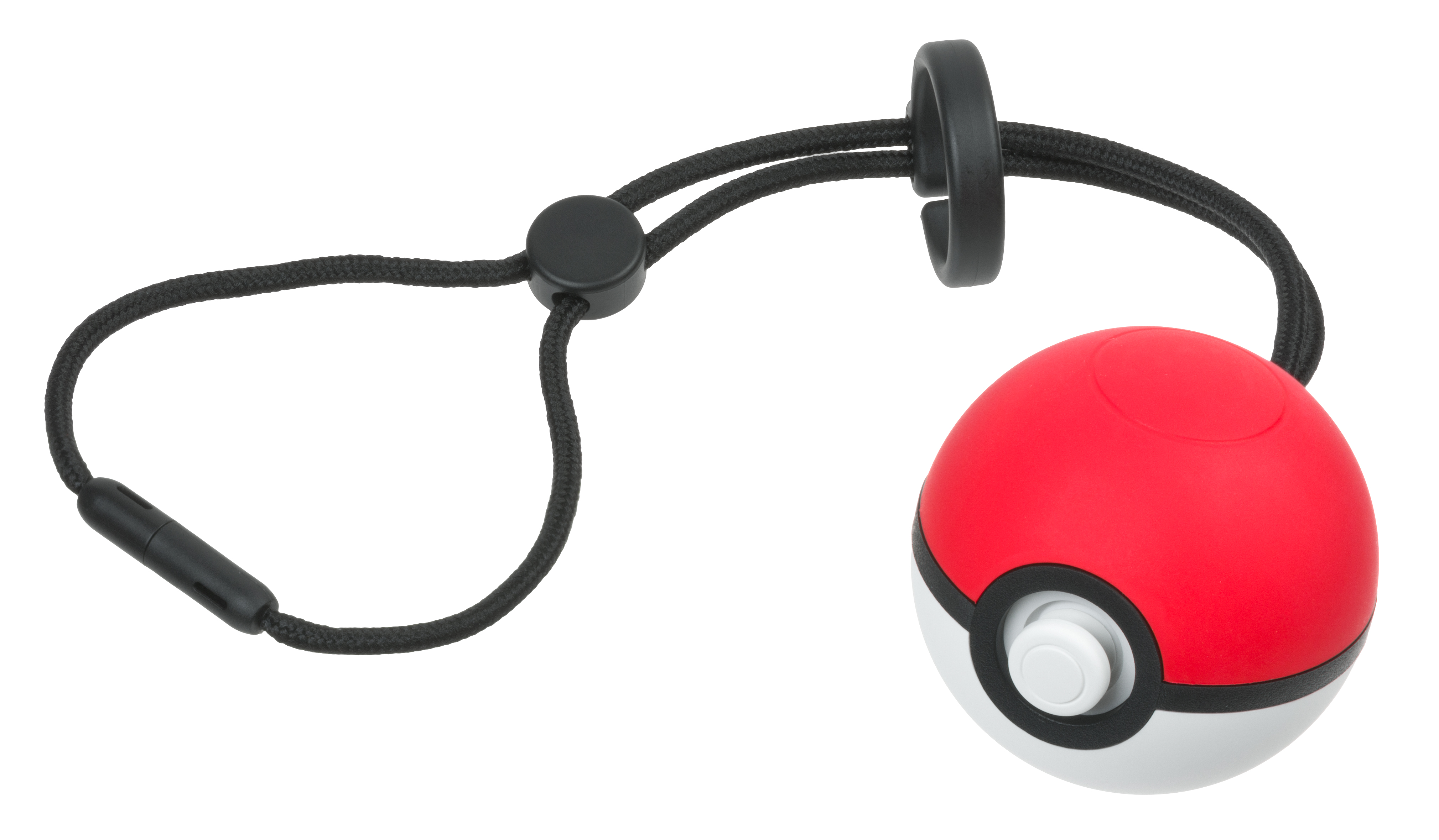 The Poke Ball Plus, an optional controller for the Pokemon: Let's Go, Pikachu!/Eevee! video game for the Nintendo Switch gaming console.